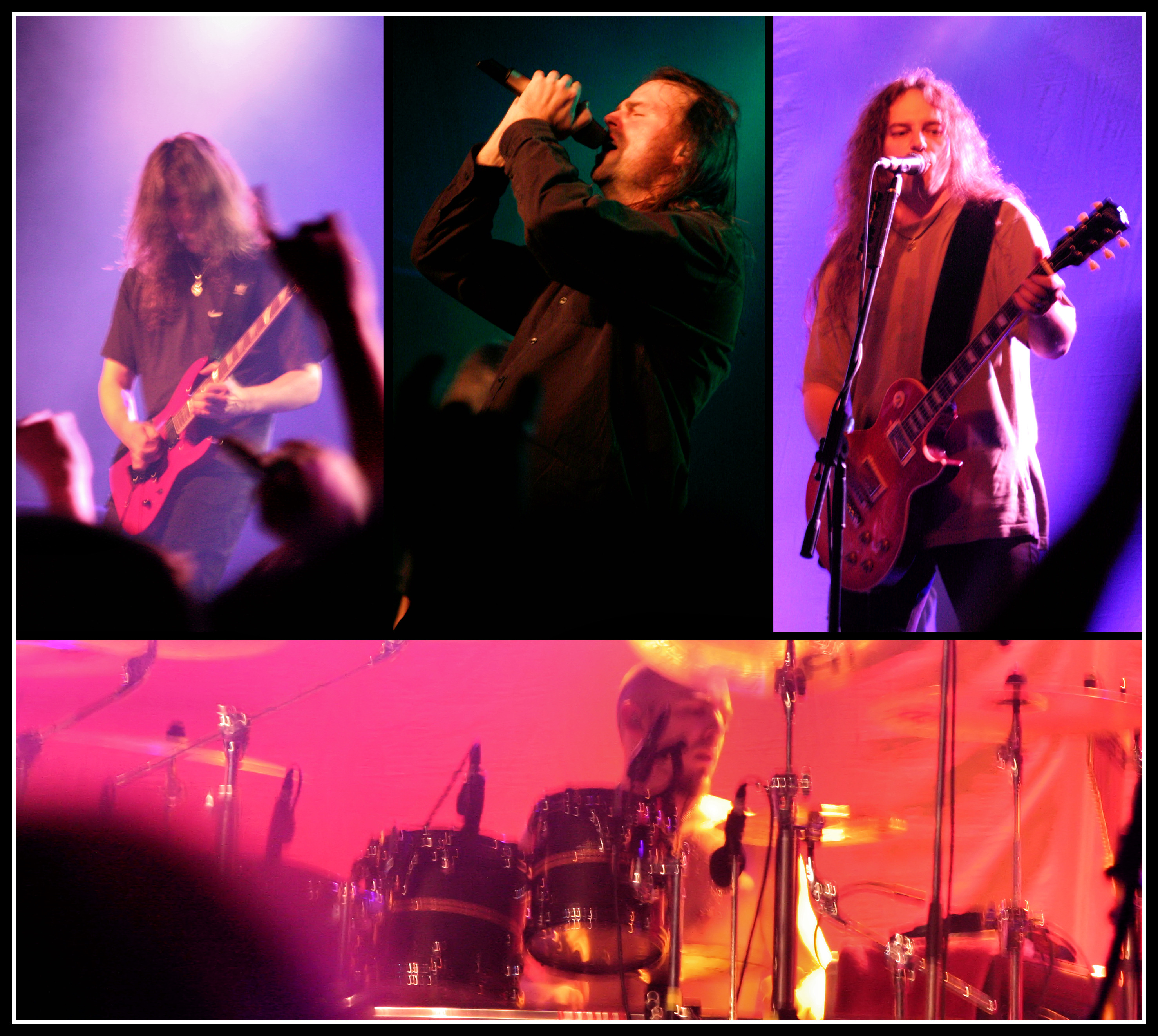 Blind Guardian; Paris 1. Oct 2006